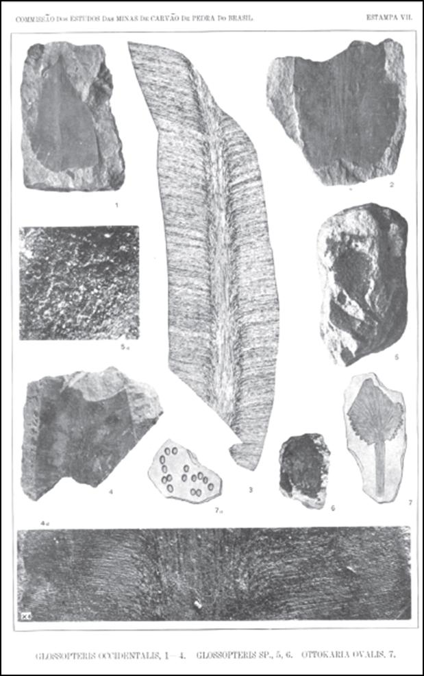 Some flora fossil specimens, coals of the Rio Bonito Formation, Paraná Basin, Brazil, described by David White (1908). Genera Glossopteris (1 a 6) e Ottokaria (7).